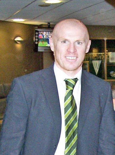 Neil Lennon (left) relaxing with User:Excalibur at Celtic Park, 10th December 2006